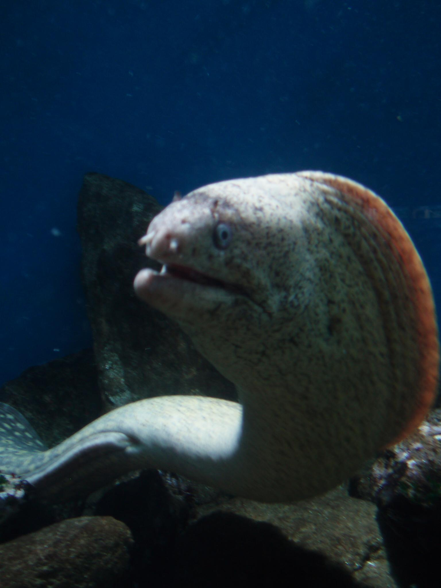 Muraena helena in an aquarium on Estação Litoral da Aguda